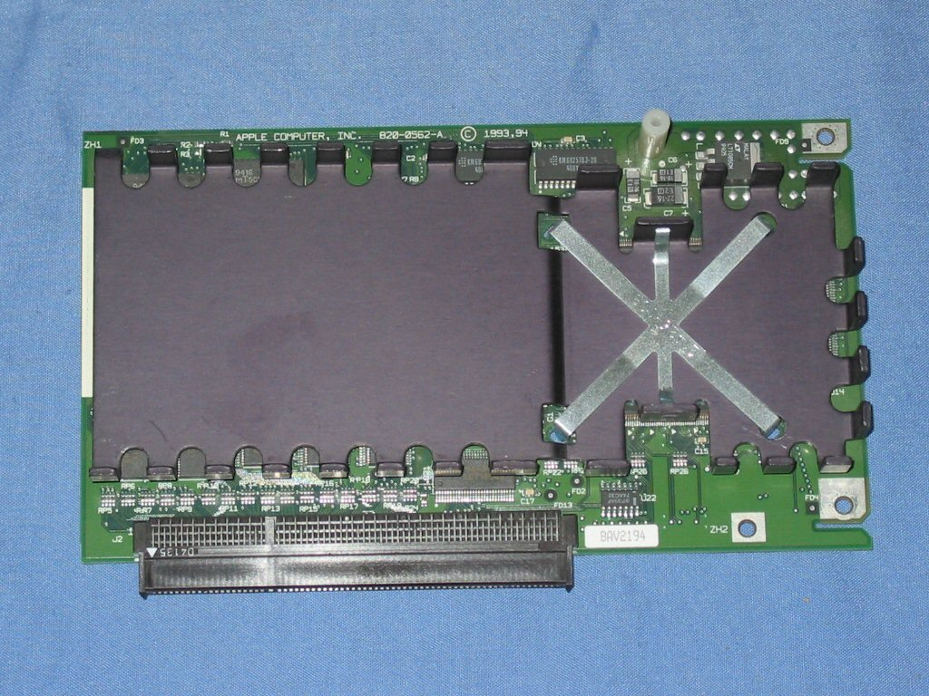 Front view of a Power Macintosh Upgrade Card